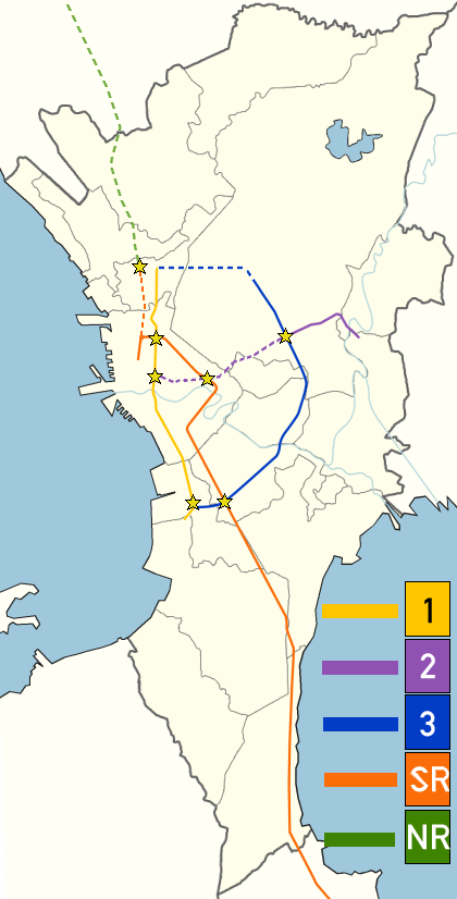 Strong Republic Transit System, was launched in 2003 to integrate rapid transit and railway lines in and around Metro Manila. This blank Metro Manila map has been used to create the map [1].